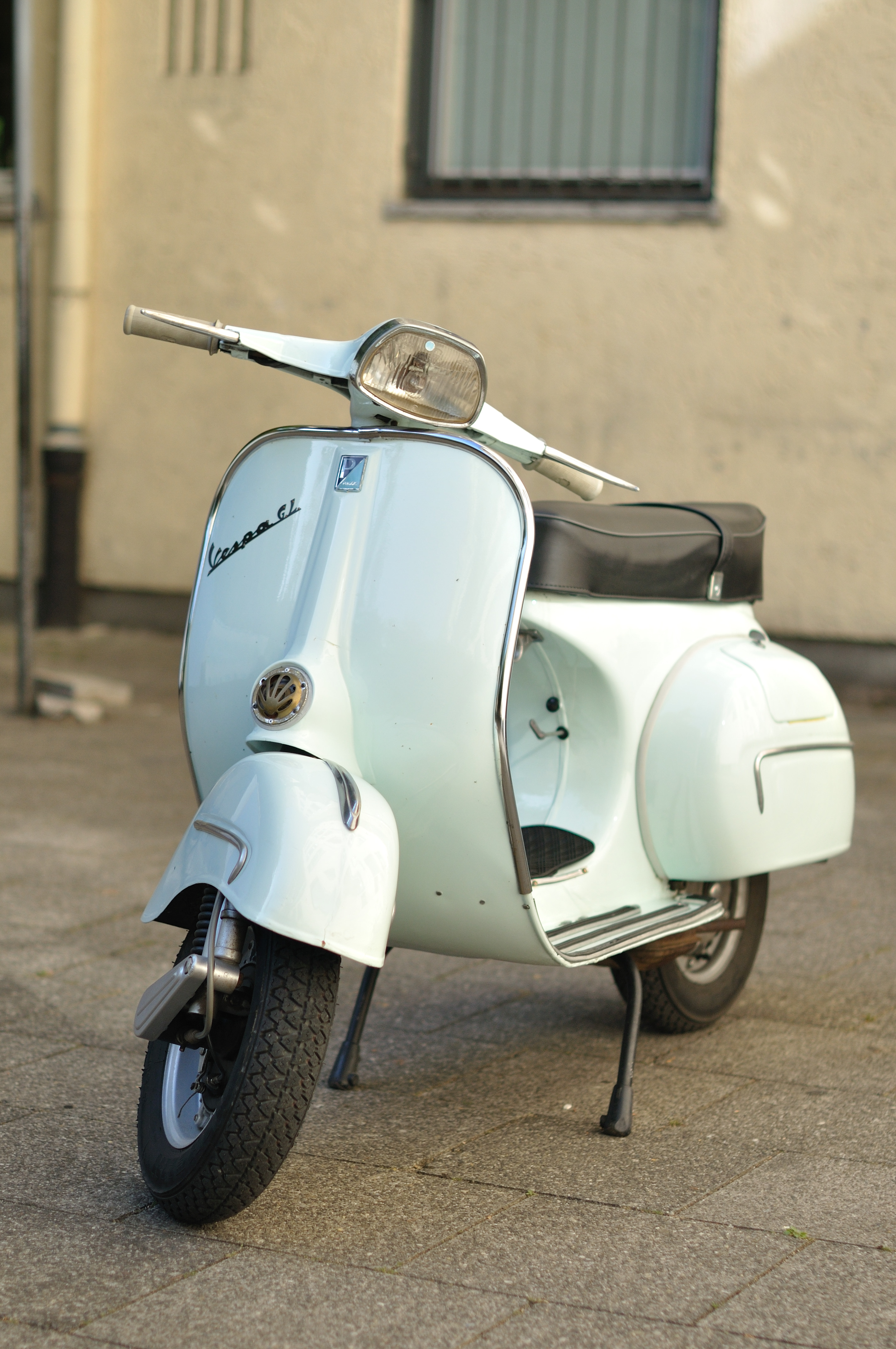 A light blue Vespa 150 GL, front view. A fifty year-old beauty. (2/2)